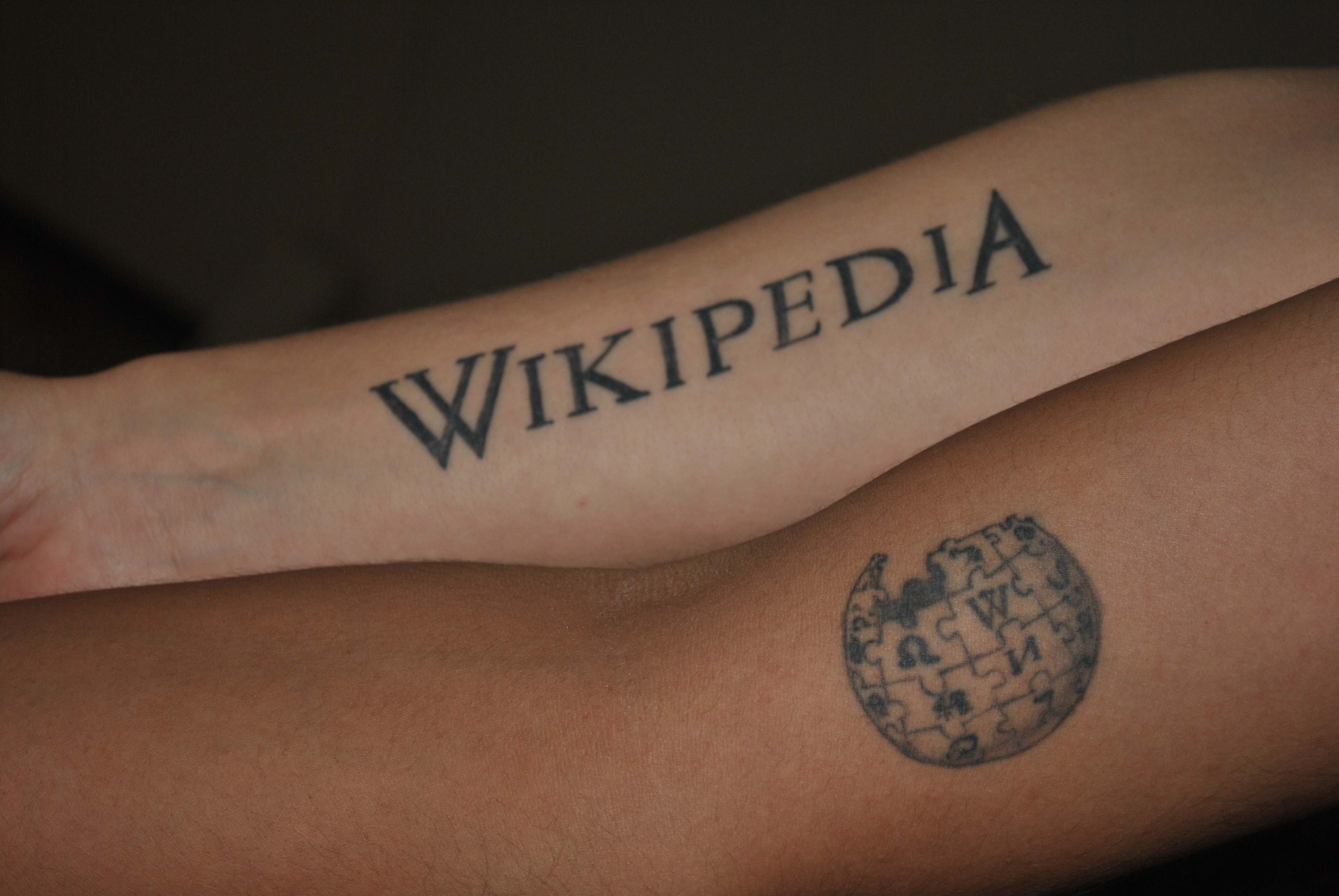 Juliana and me have wiki tattoos.